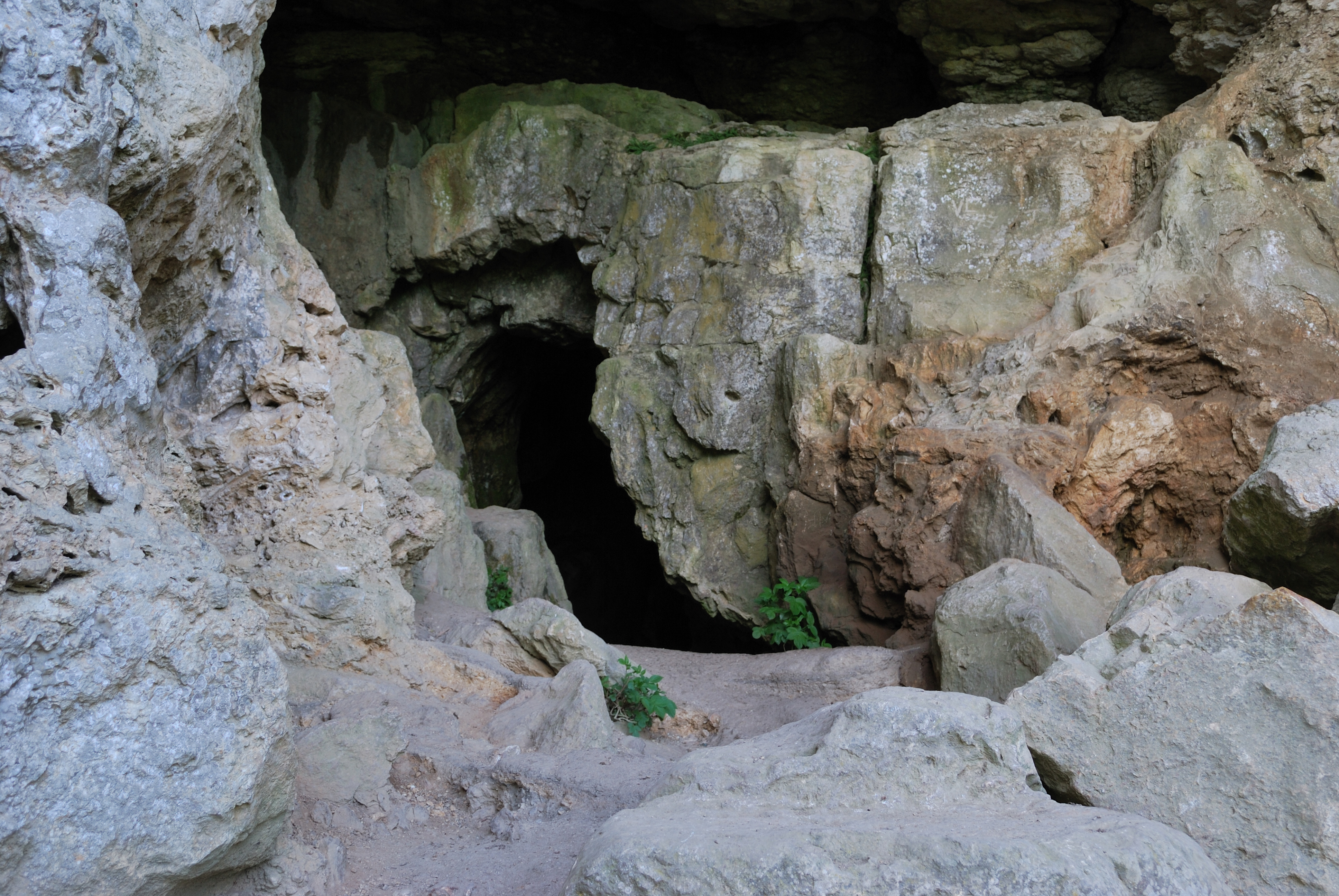 Entrance to the Sibyllenloch, a cave in Teckberg in Swabian Jura in the German Federal State Baden-Württemberg.